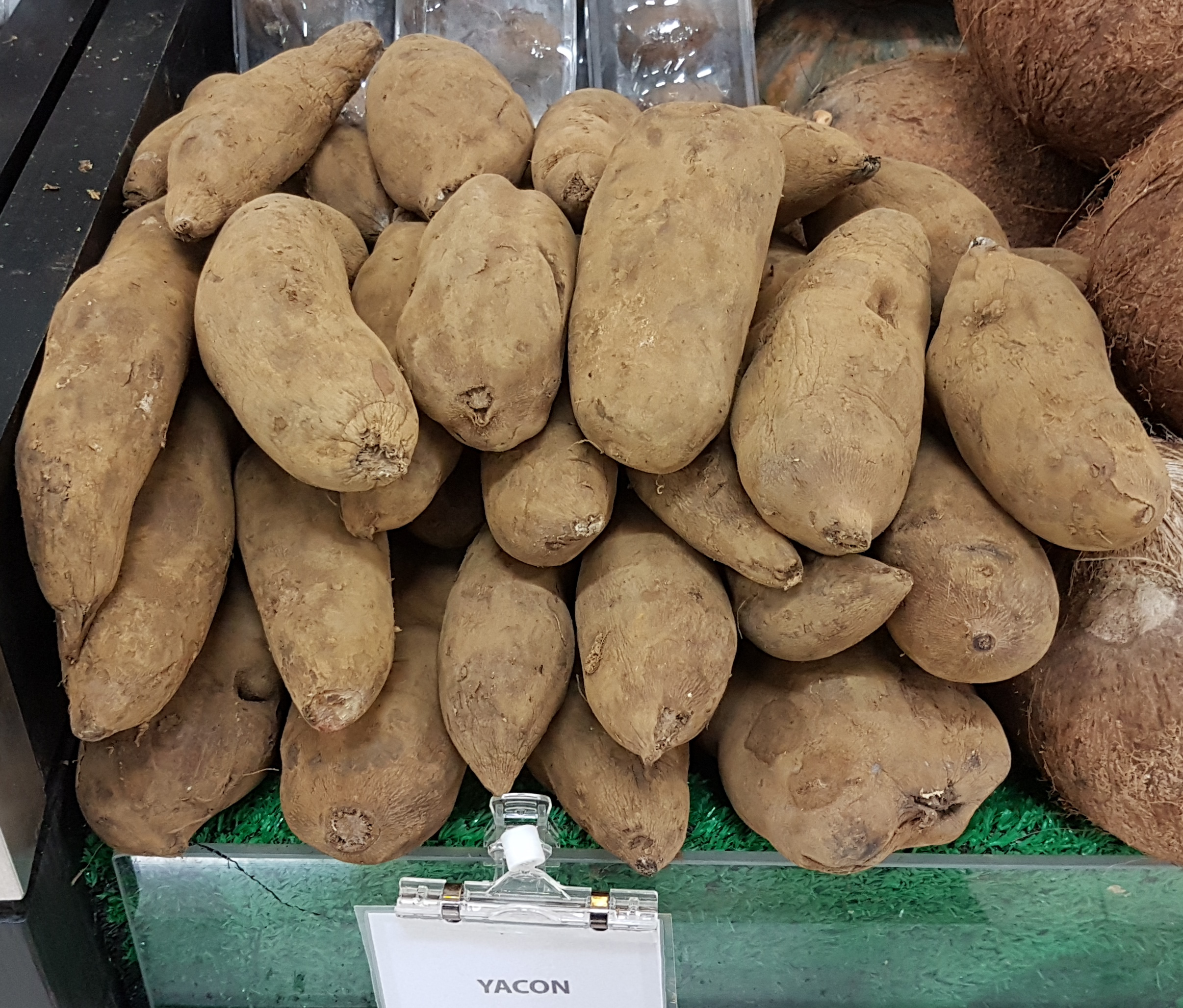 Yacon tubers sold in the Philippines